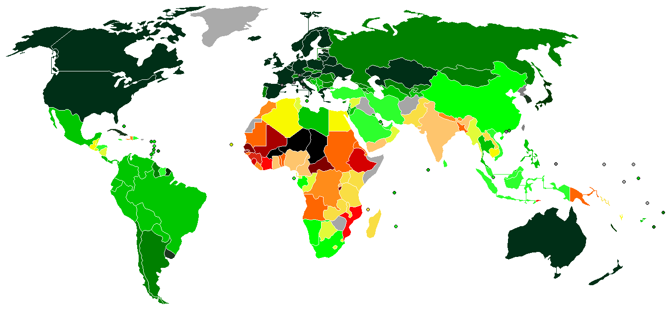 Countries fall into three broad categories based on their Education Index: high, medium, and low human development. The 2007/2008 edition of the Human Development Report was published on November 27, 2007; in Brasília, Brazil. [1] {1 }